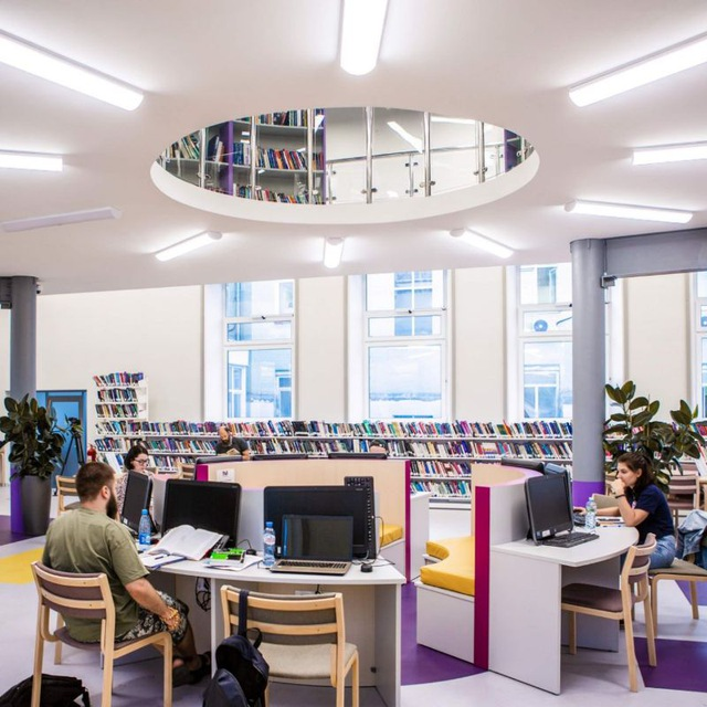 library hall